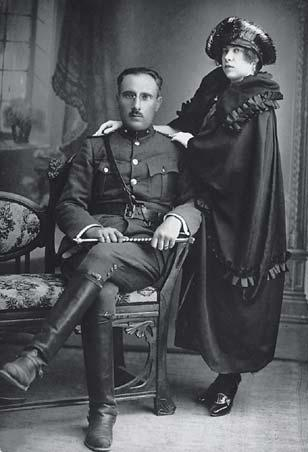 Colonel Mordehai Frizis (1893-1940) and his wife, Victoria Costi of Romaniote (Greek) Jewish orgin.